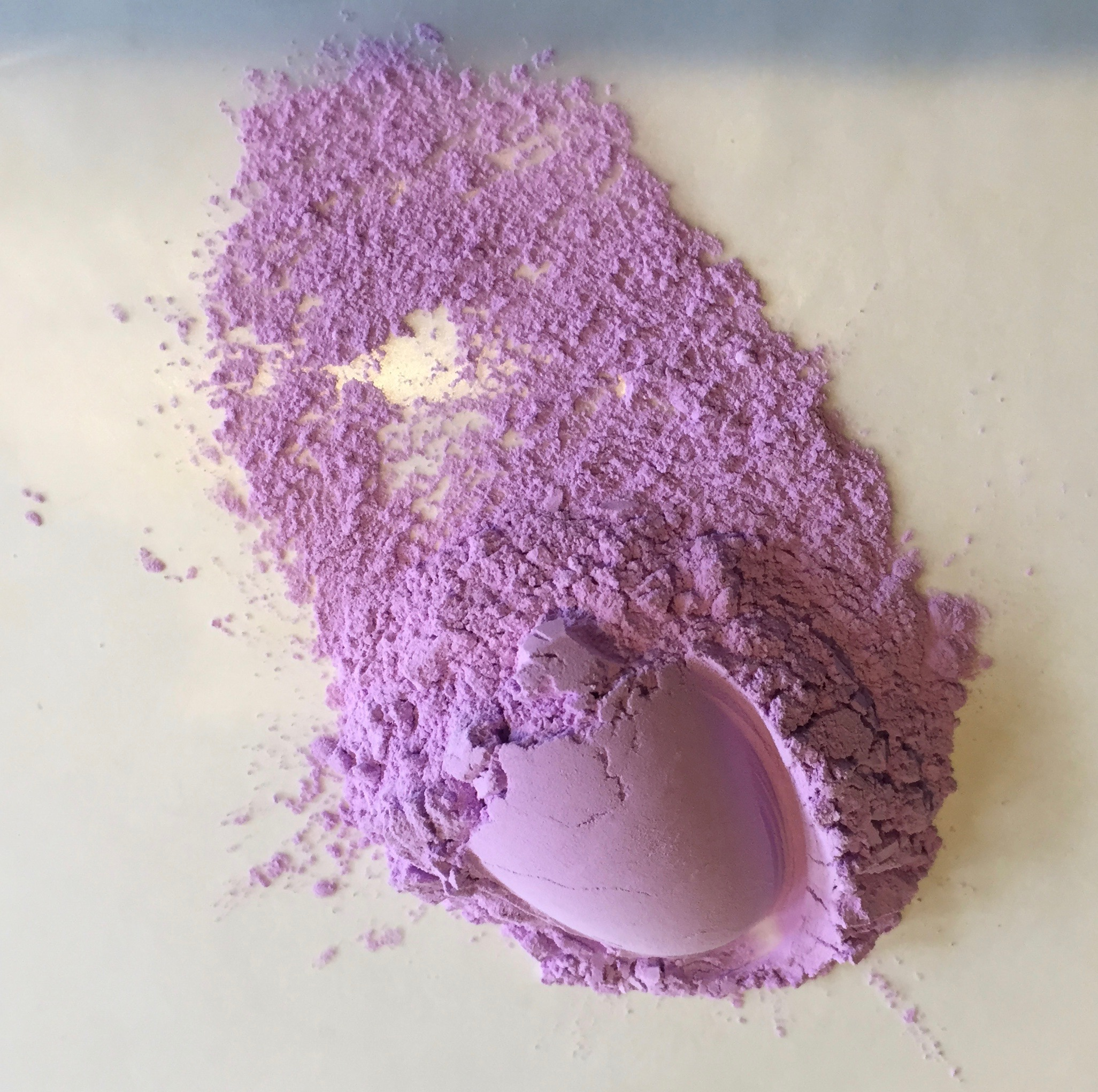 Powdered NHN